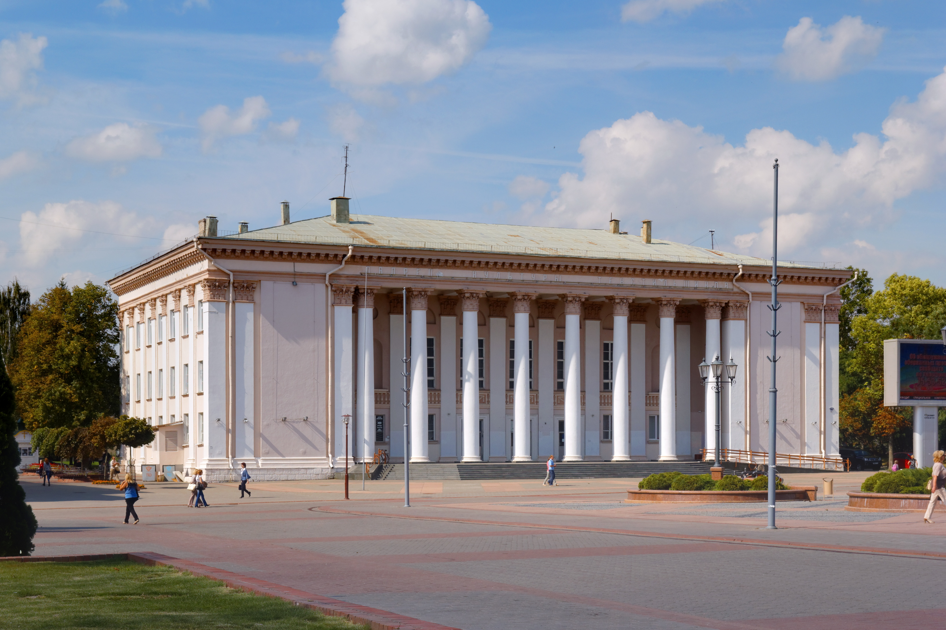 Grodno. Palace of Culture